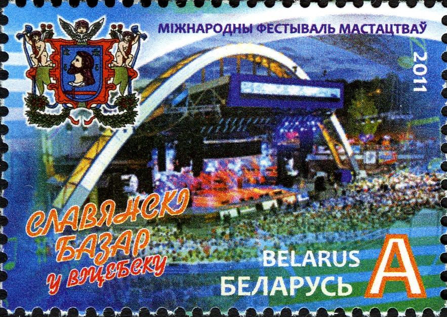 Stamp of Belarus